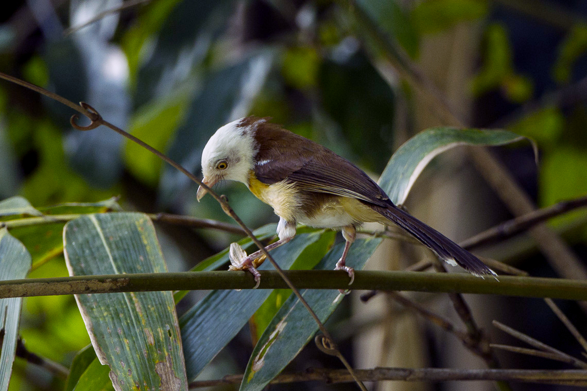 White-hooded Babbler - Central Thailand_S4E5030